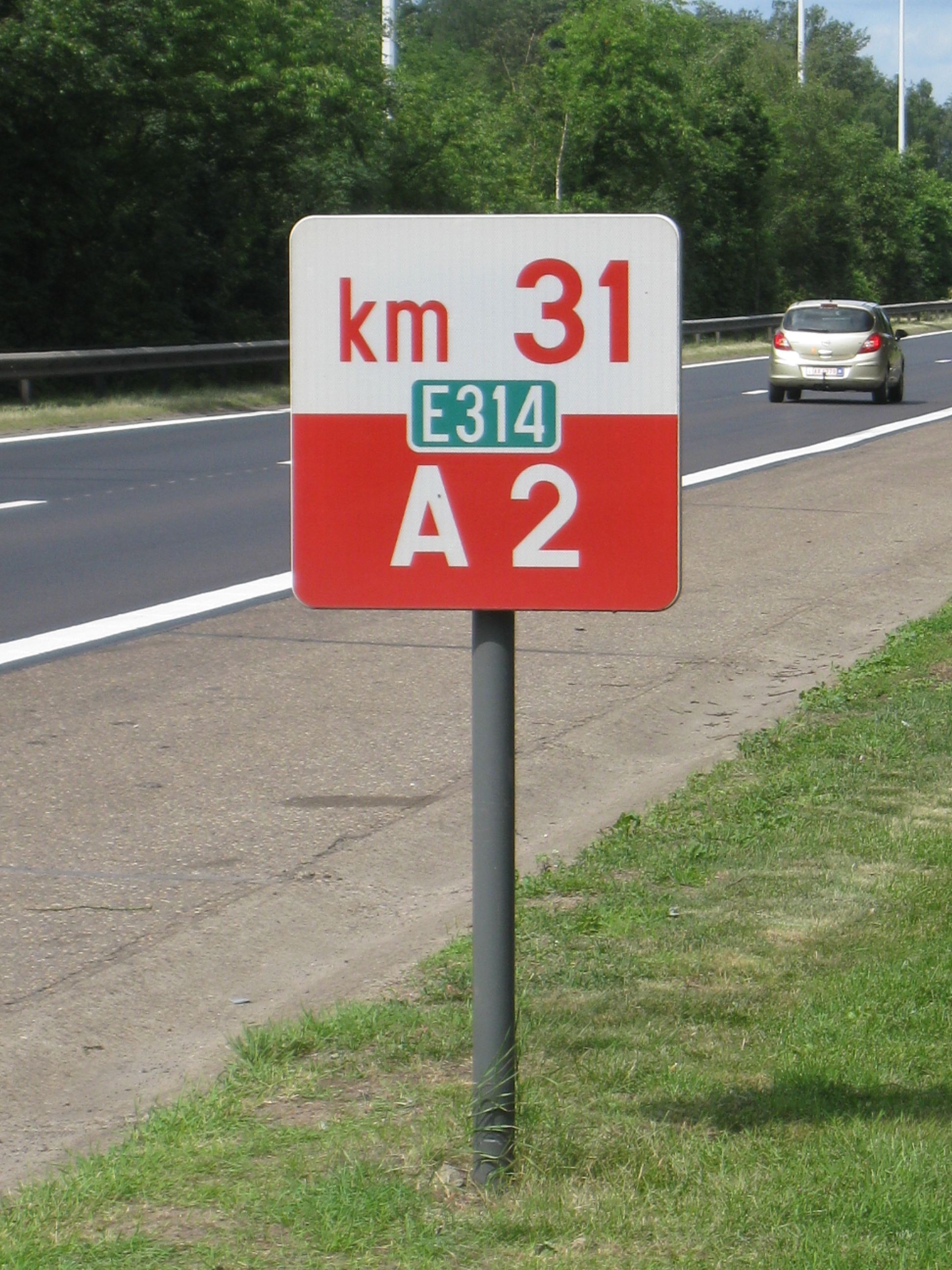 A Belgian route marker showing both the Belgian and the European route numbers